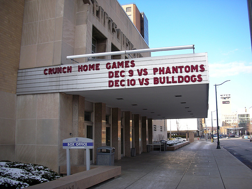 The Oncenter War Memorial Arena; Syracuse, NY.